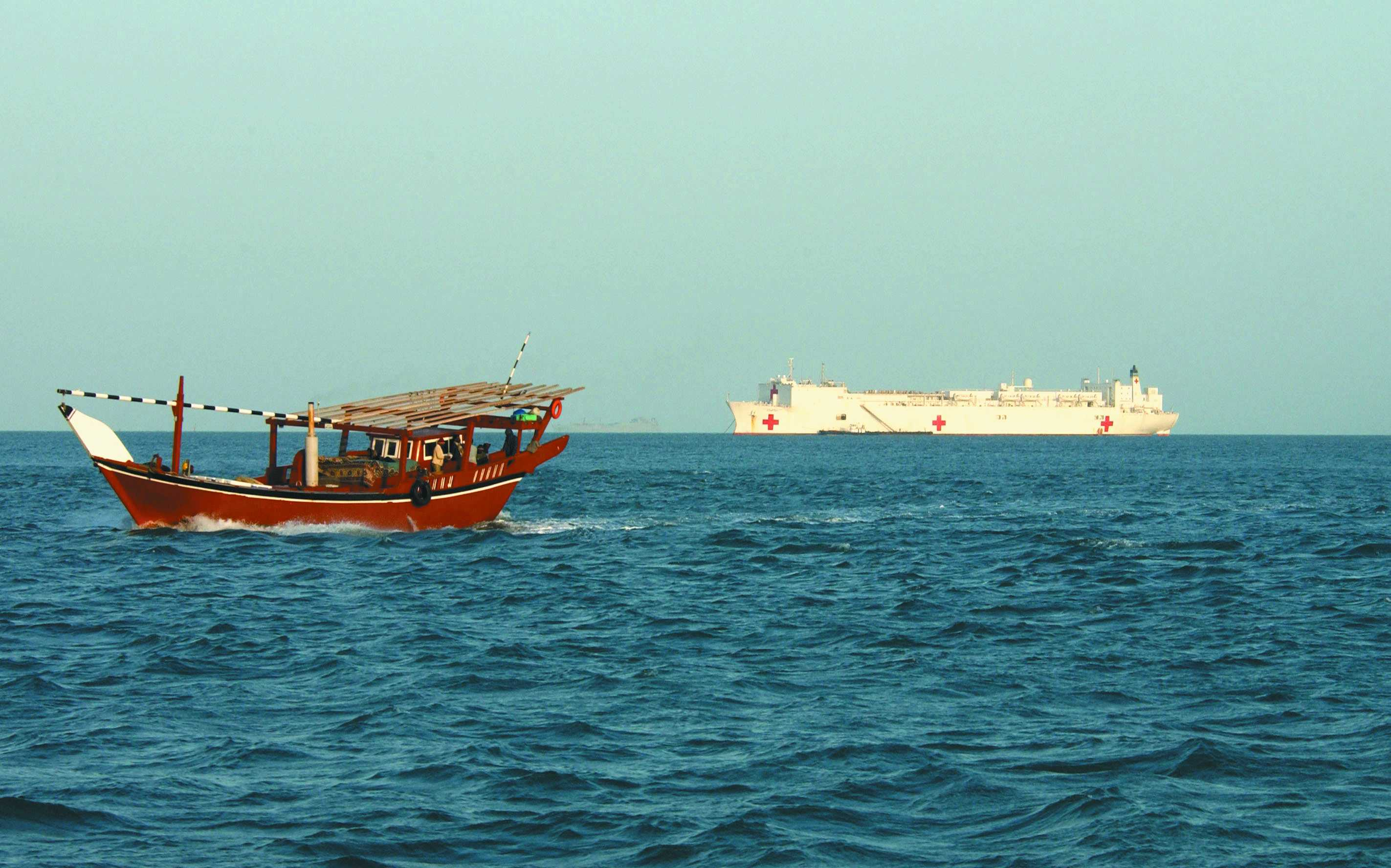 USNS Comfort, capable of providing medical treatment for 1,000 patients, sits at anchor in the Persian Gulf while a dhow motors past. Photo by PH1 Shane T. McCoy, USN